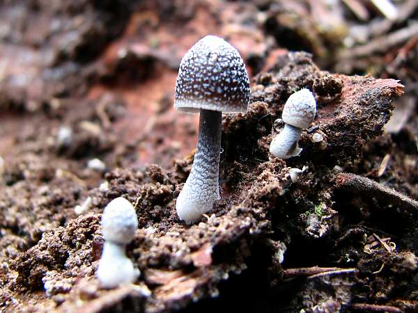 Fruit bodies of the fungus Mycena nargan Grgur. Specimens photographed at Eco Tourism track, Sanatorium Picnic Ground, Mt Macedon, Australia.